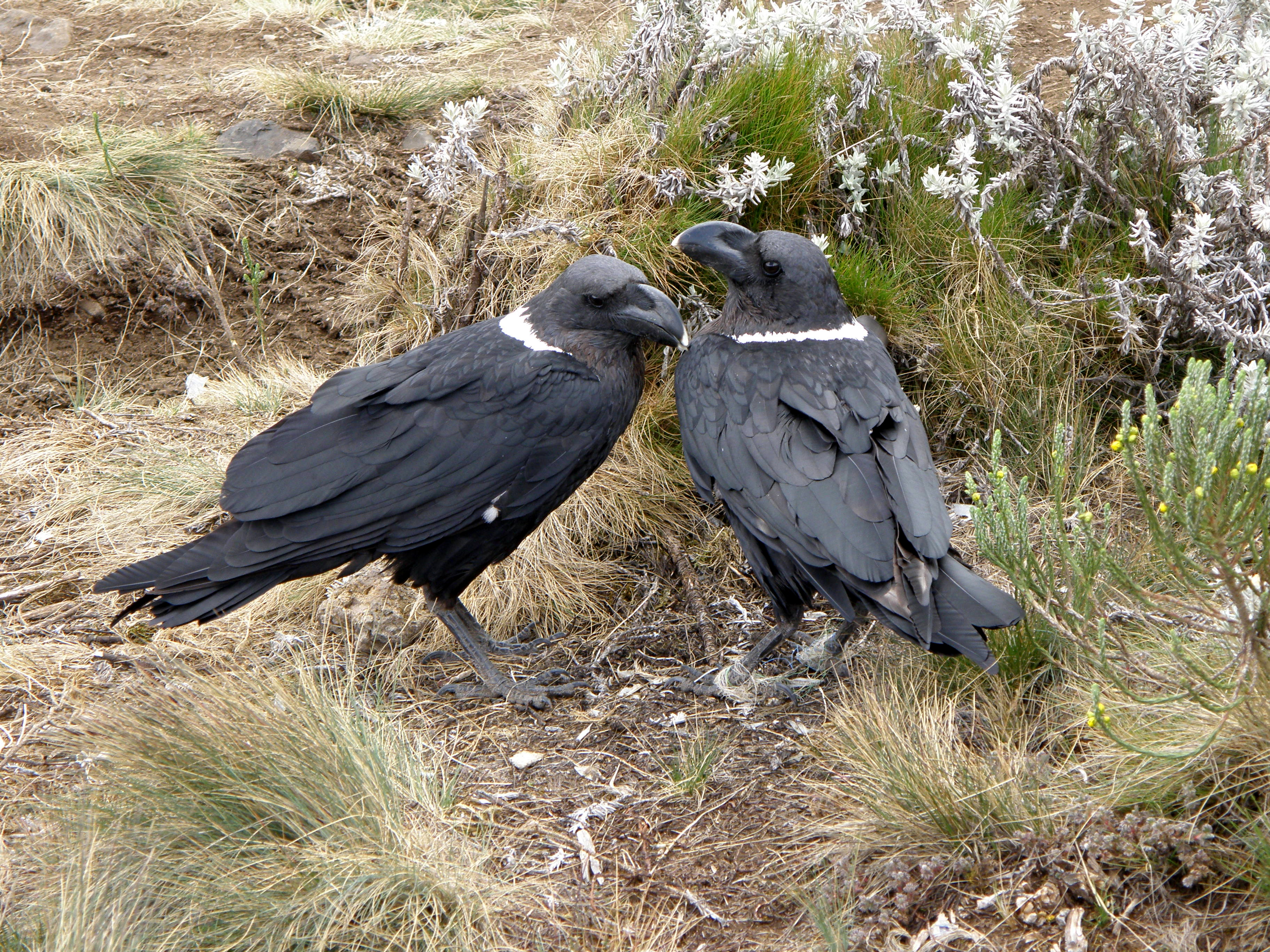 Corvus albicollis, Kilimanjaro base camp, Tanzania